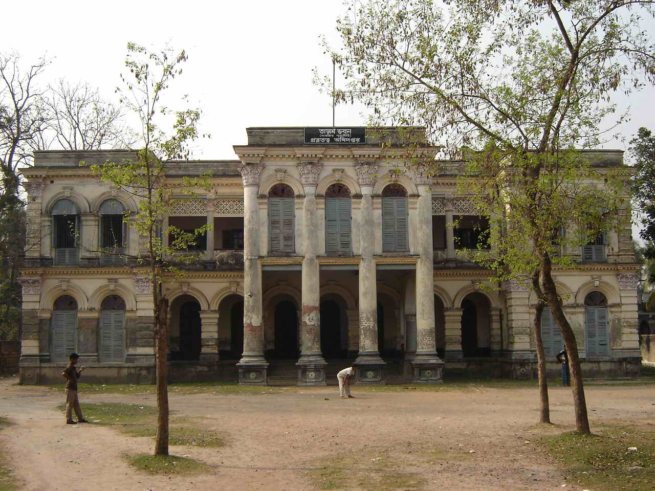 Preently used as a government office.